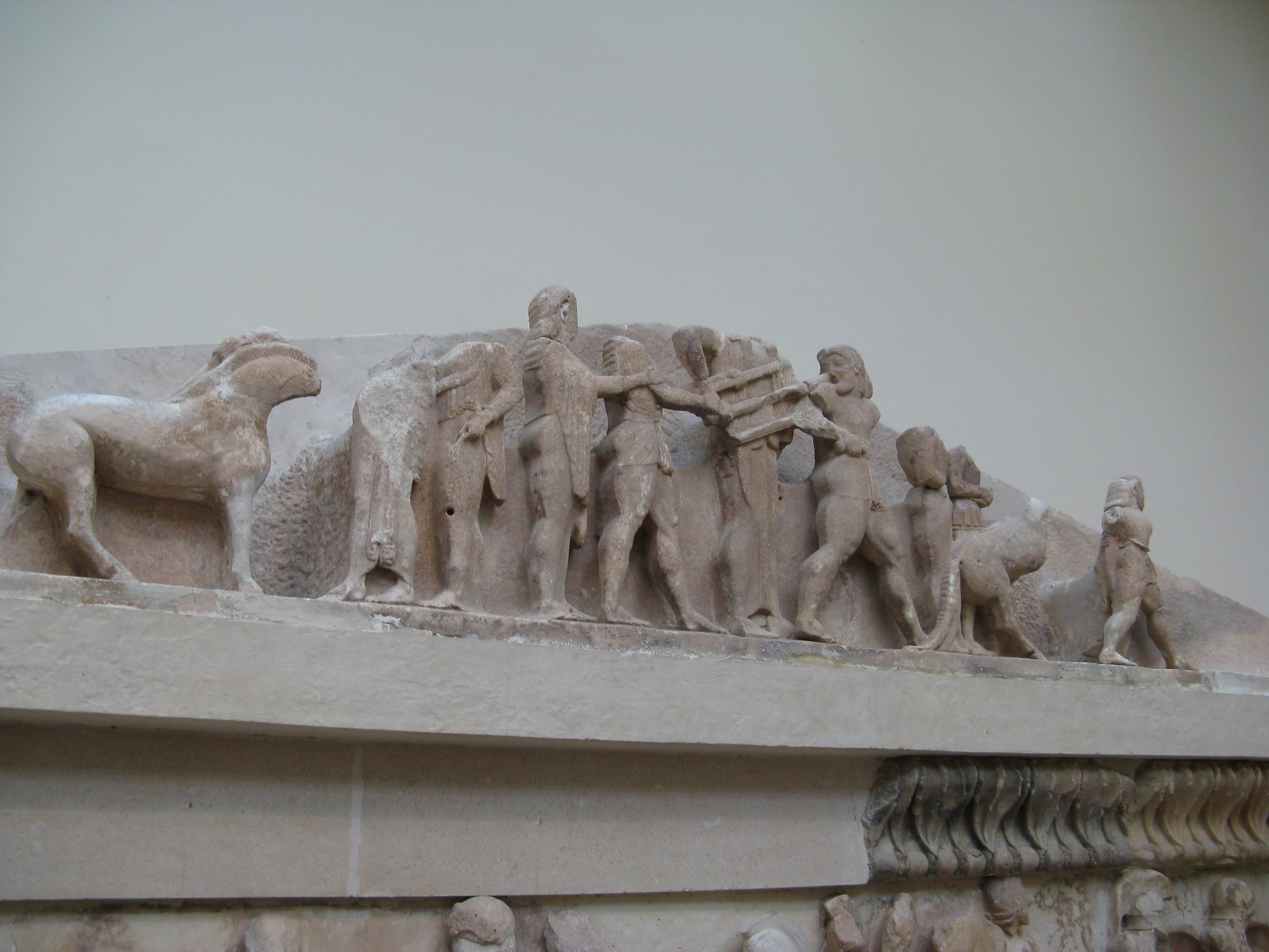 The east pediment of the Siphnian treasury. The dispute between Herakles and Apollo for the oracular tripod. 525 B.C.